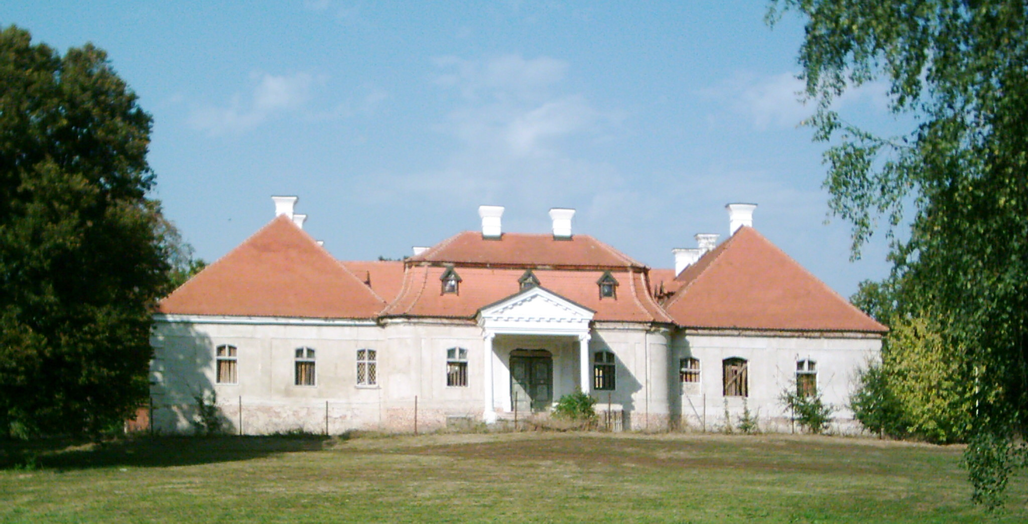 Želiezovce, Schubert´s park,manor